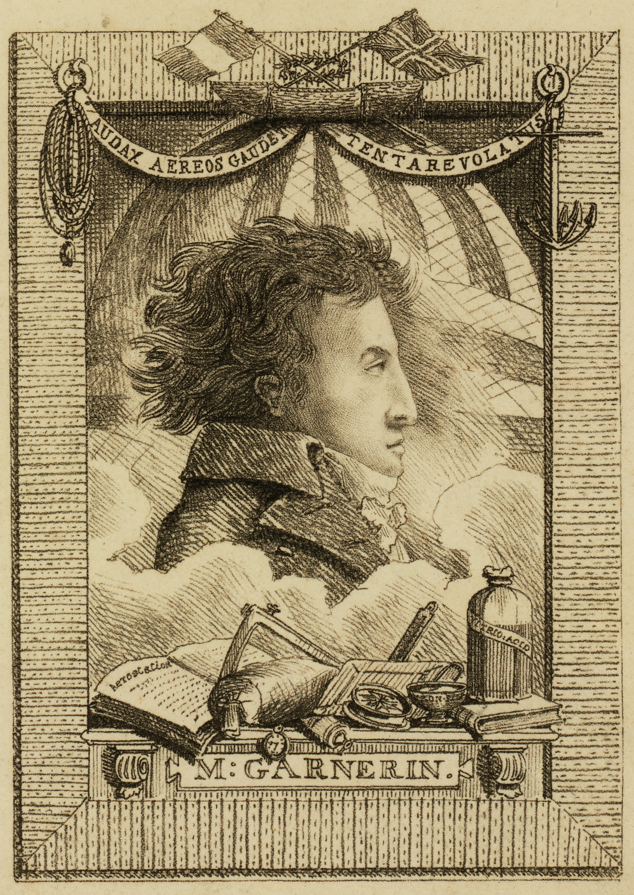 French balloonist André-Jacques Garnerin (1769-1823) drawn and engraved by Edward Hawke Locker (1777-1849) from a sketch made on their aerial voyage on 5 July 1802, with a banner above: "Audax aereos gaudet tentare volatus".